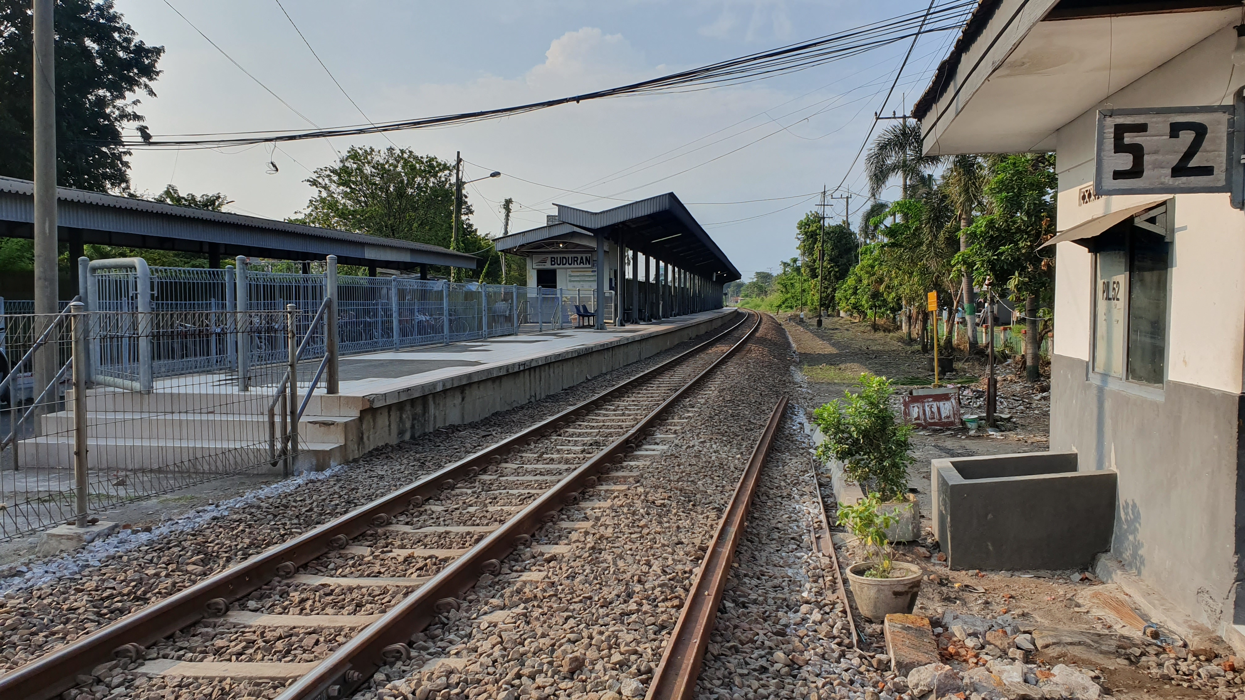 Buduran commuter train stop in Sidoarjo.